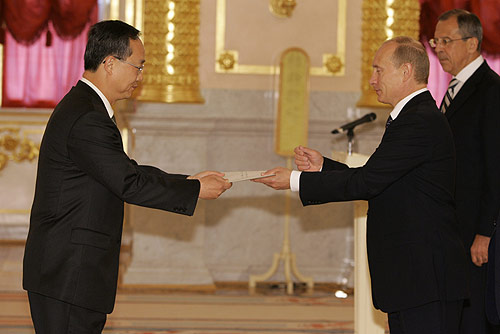 GRAND KREMLIN PALACE, MOSCOW. Ambassador of the Republic of Korea presents his letter of credentials to the President.